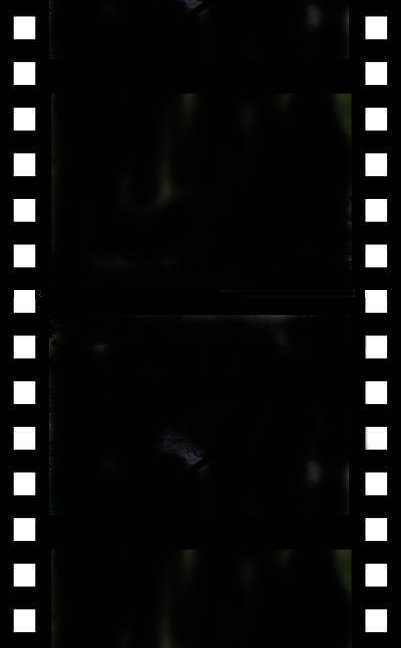 Representation of a strip of photographic film. Created by me, derived from Image:Hard cut.jpg.